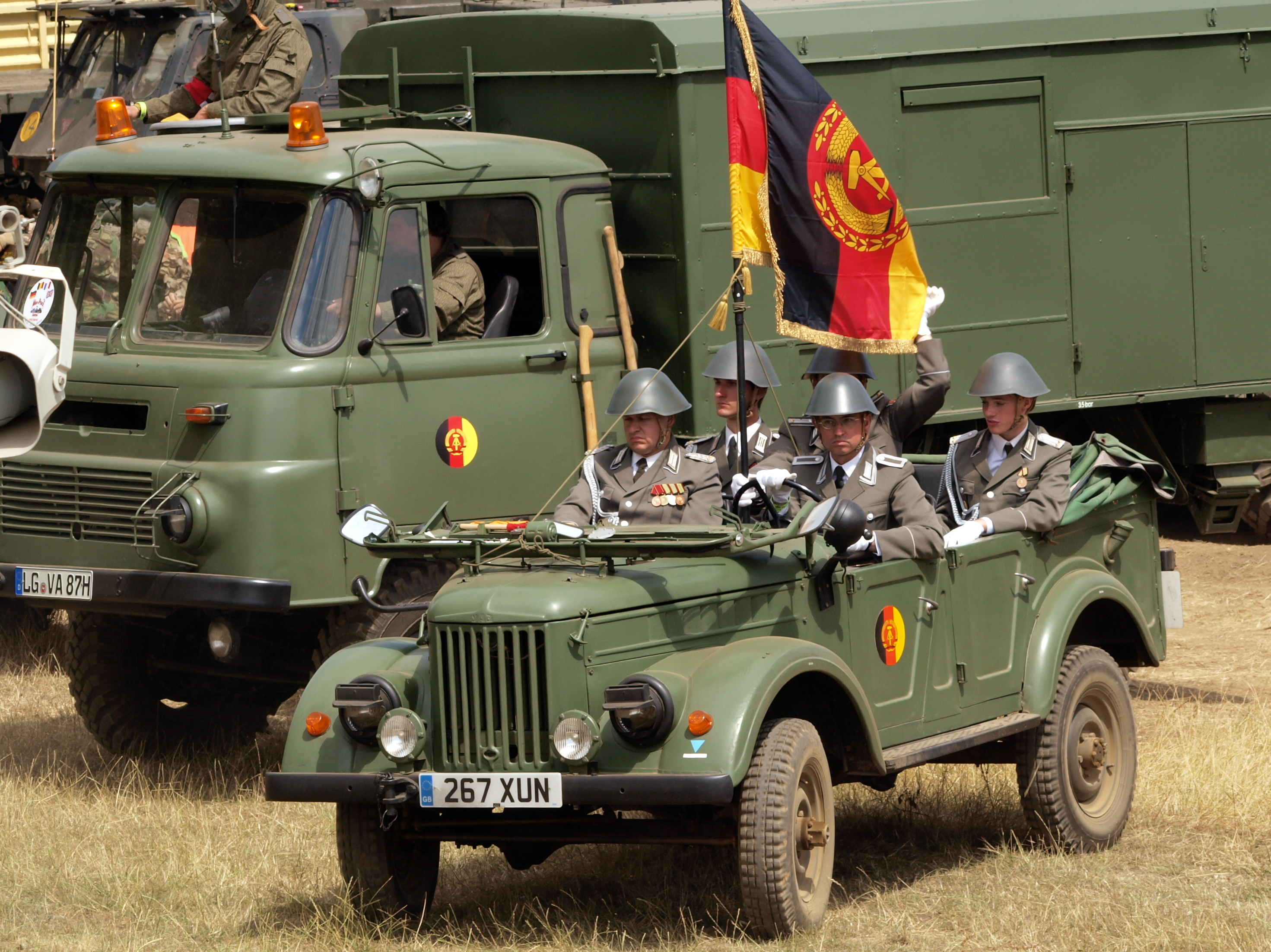 Photographed at the War & Peace show.